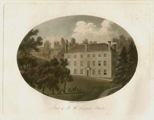 Hope End House, near Ledbury, Herefordshire, England, as "Seat of Sir H. Tempest Bart.", i.e. Sir Henry Tempest, 4th Baronet.